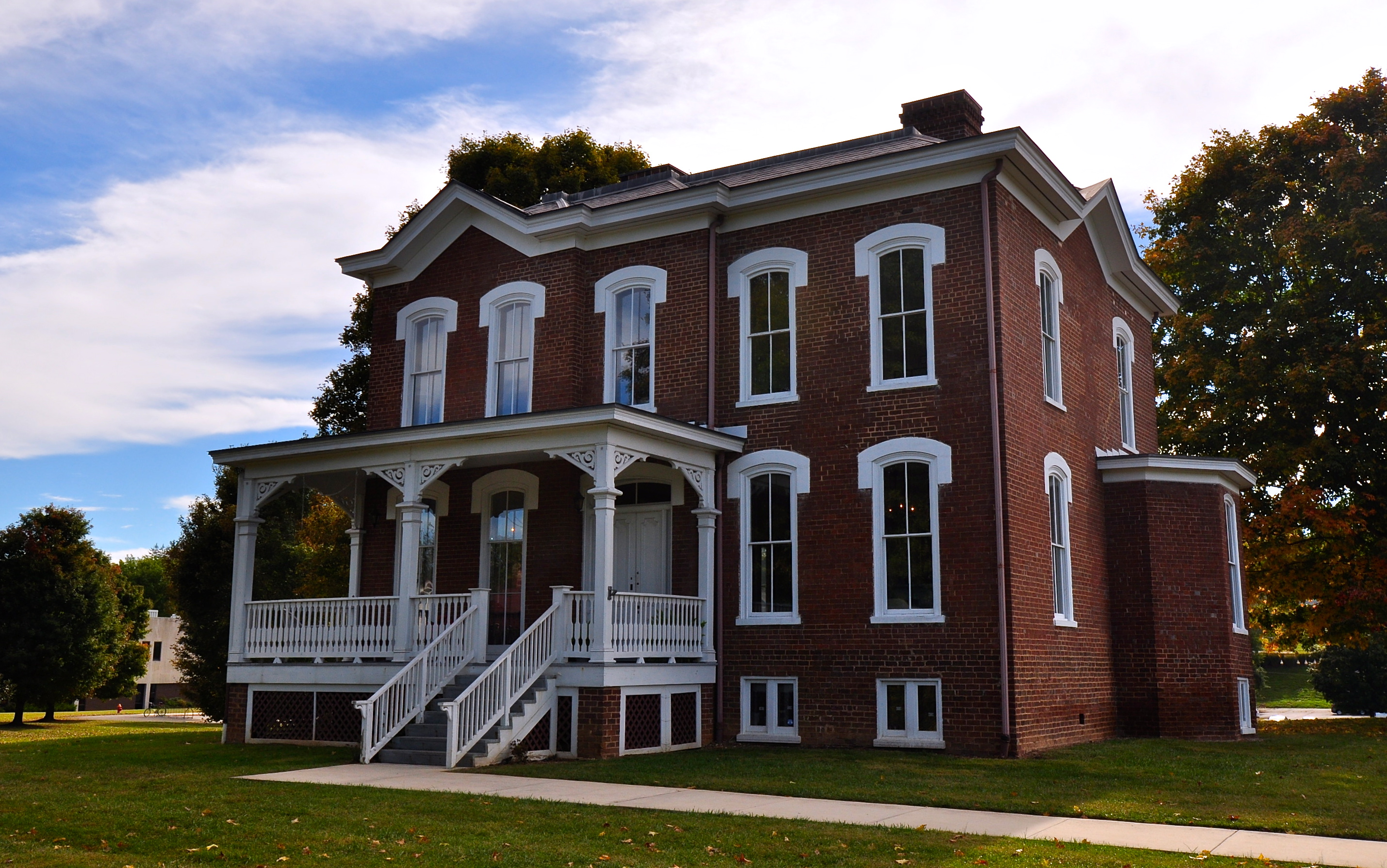 Post US Civil War home of Confederate Brigadier General Gabriel C. Wharton. Now a museum and listed on the National Register of Historic Places.